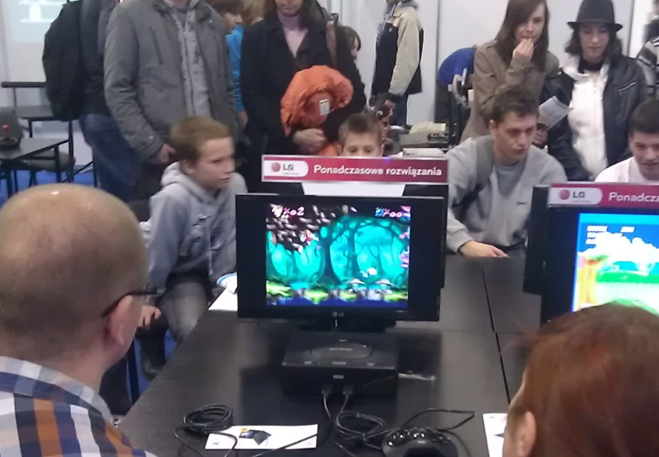 Poznań Game Arena, 2012